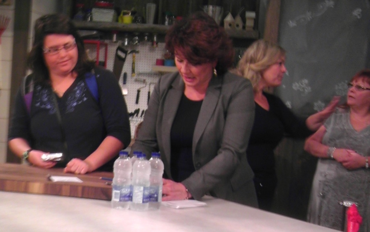 Marina Orsini & Guylaine Guay photographed in Montreal, Quebec, Canada at the Maison de Radio-Canada's studio 43.